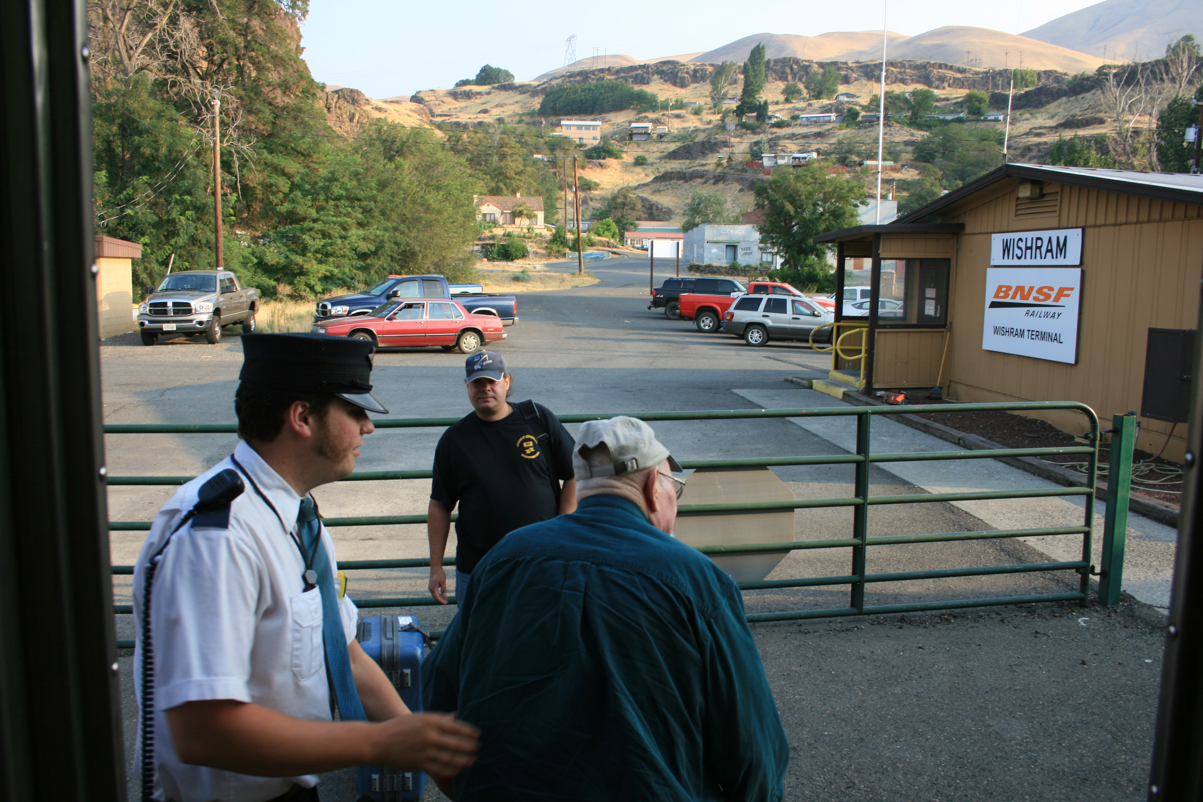 Passengers alighting from Amtrak train in Wishram, Washington on 8 August 2009. Photo taken by uploader. All rights released.